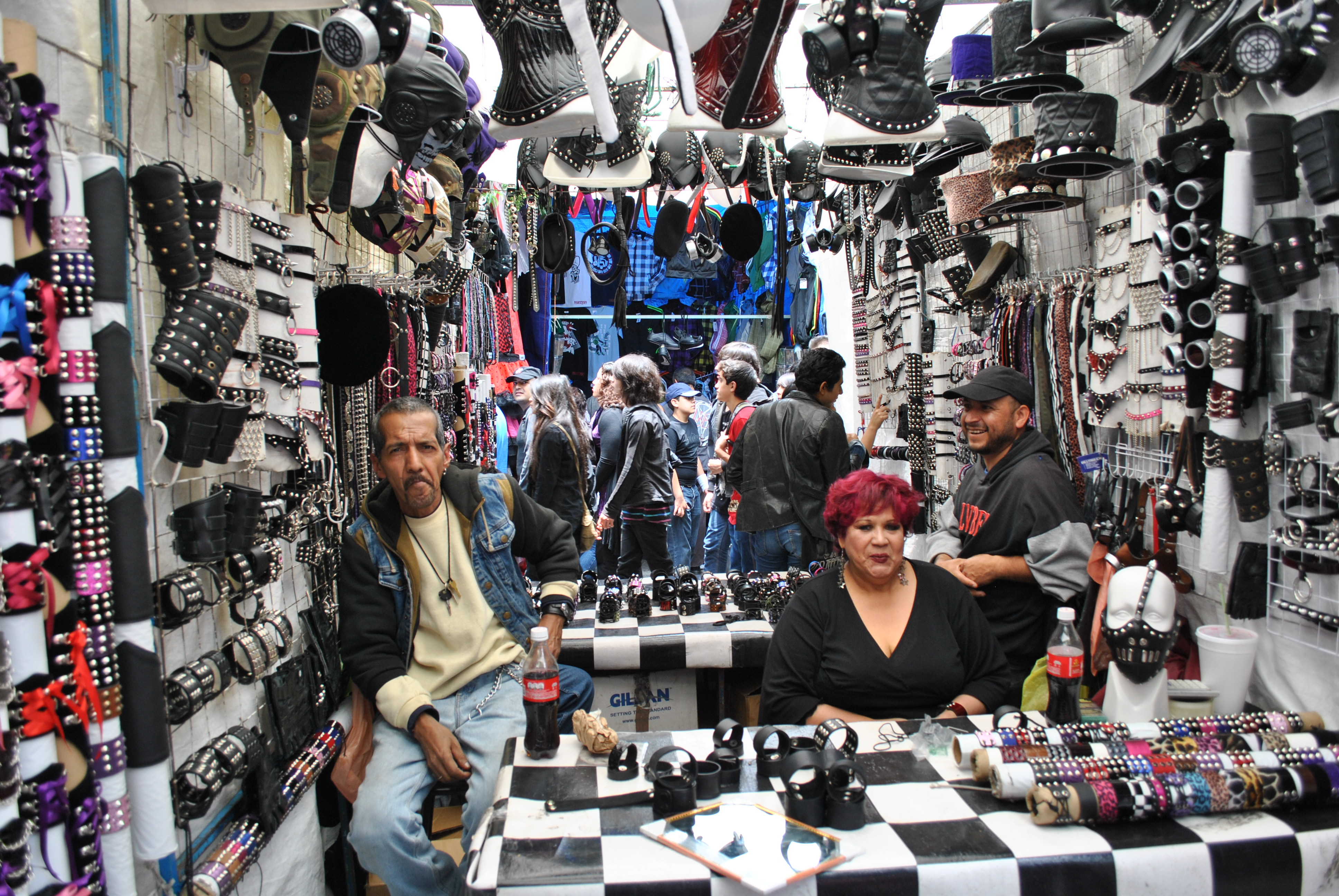 The Tianguis Cultural del Chopo is a Saturday flea market (tianguis in Mexican Spanish) near Mexico City downtown, known locally as El Chopo. It is named after its original location near Museo Universitario del Chopo, an art deco building with a couple of towers designed by Gustave Eiffel. Since the end of the eighties, the Tianguis del Chopo has been at a location very near subway station Metro Buenavista in the street of Aldama in the Colonia Guerrero neighborhood.